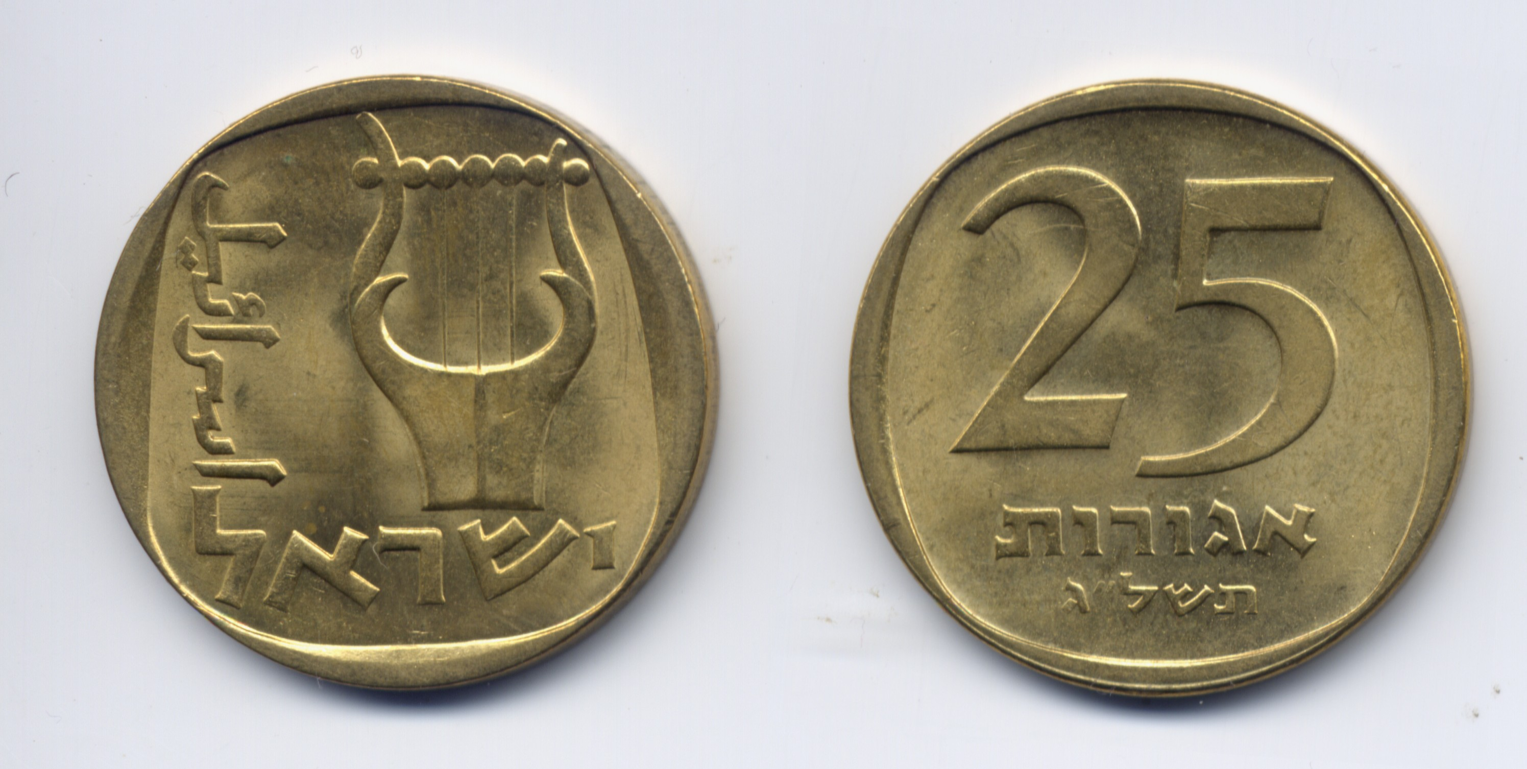 Twenty five Israeli Agorot, from the Israeli Pound series, year התשל"ג.